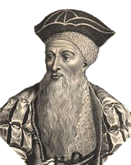 Afonso de Albuquerque (1462-1515), Portuguese soldier and politician.